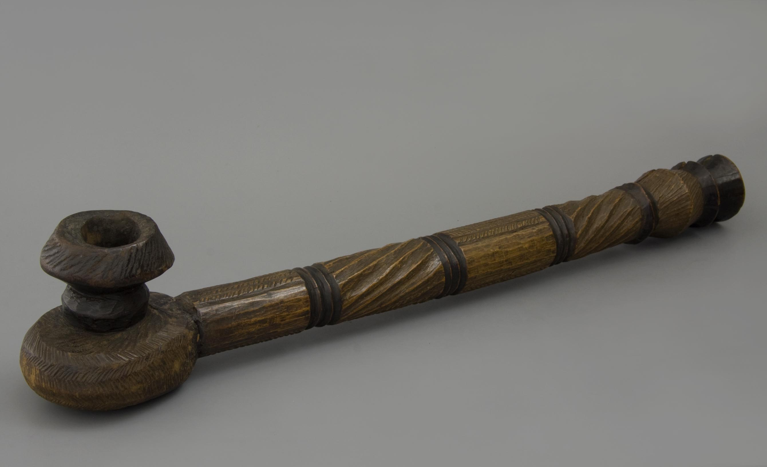 An early wooden Congo pipe by the Mondombe tribe (collection Pijpenkabinet, Amsterdam)